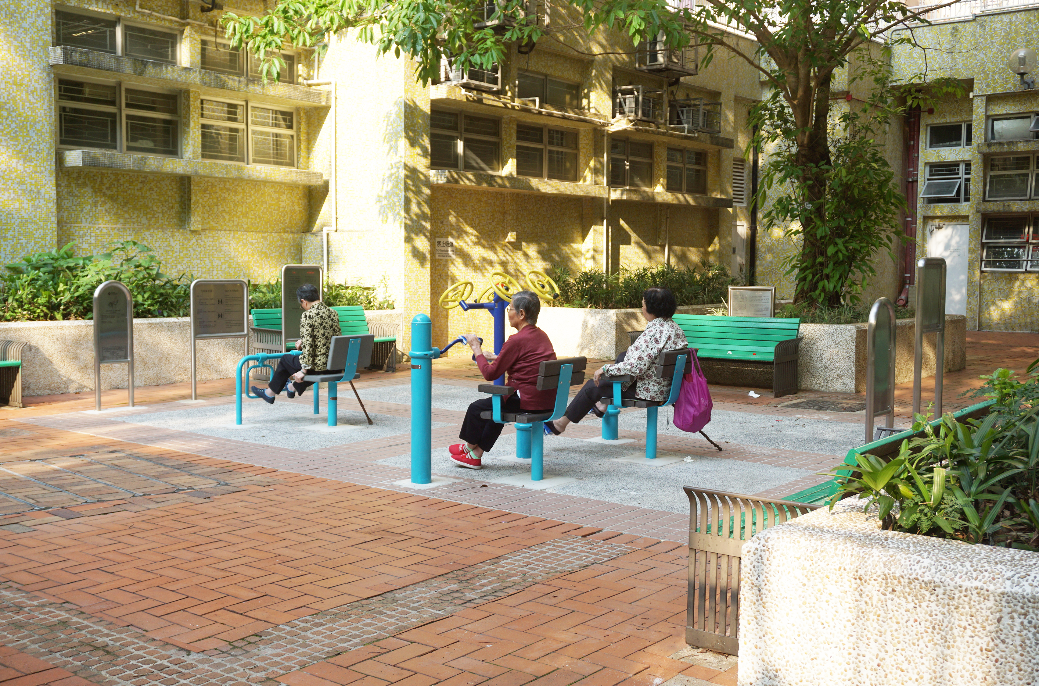 Wan Hon Estate in Kwun Tong, Hong Kong.